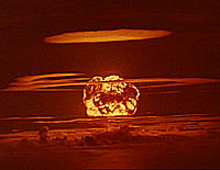 Operation Redwing - Tewa shot.